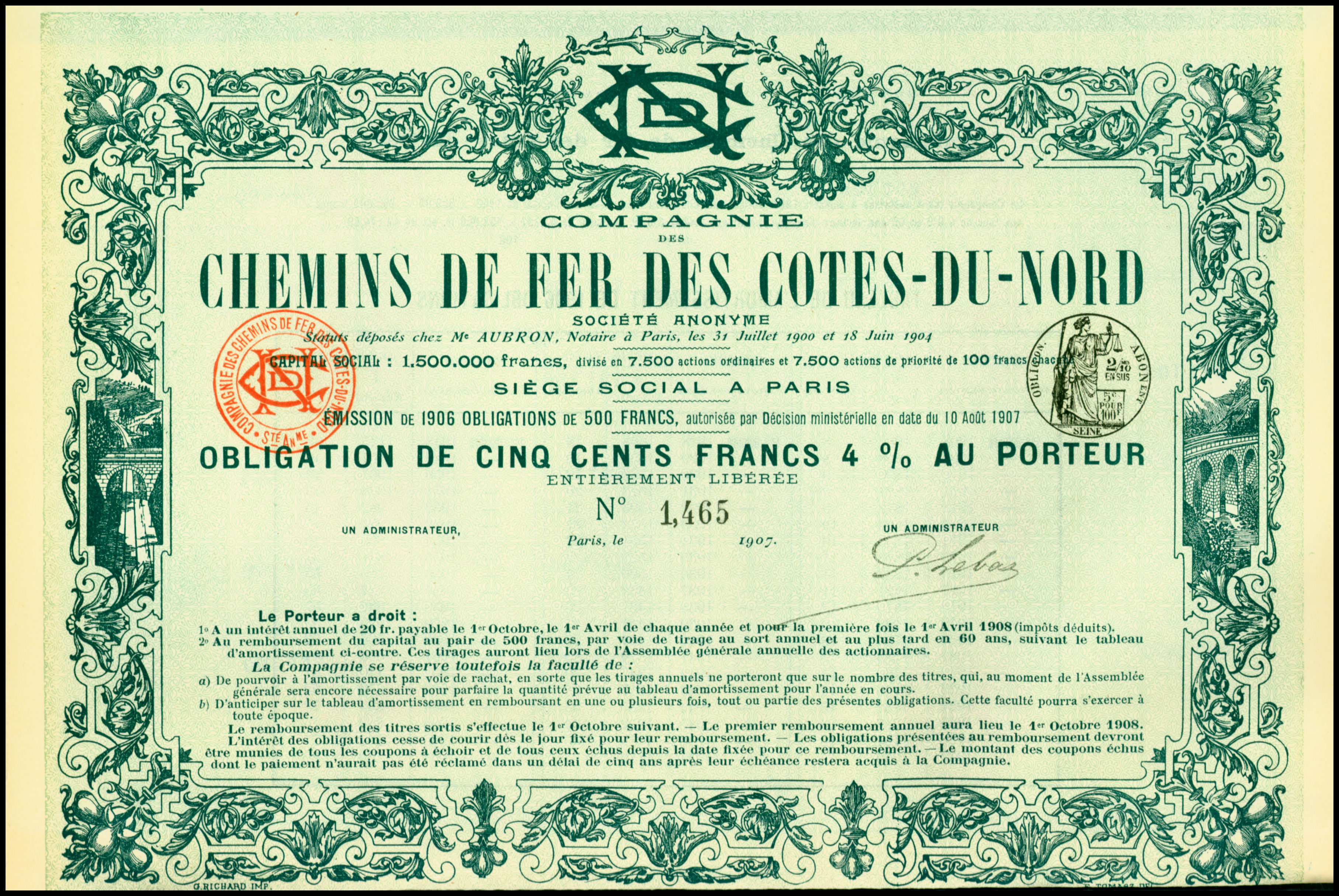 Bond of the Compagnie des Chemins de Fer des Côtes-du-Nord, issued 1907